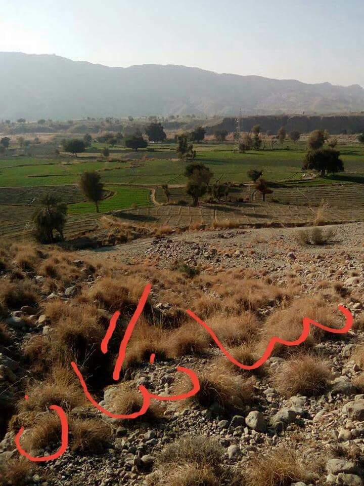 Sangan village Balocistan, Pakistan